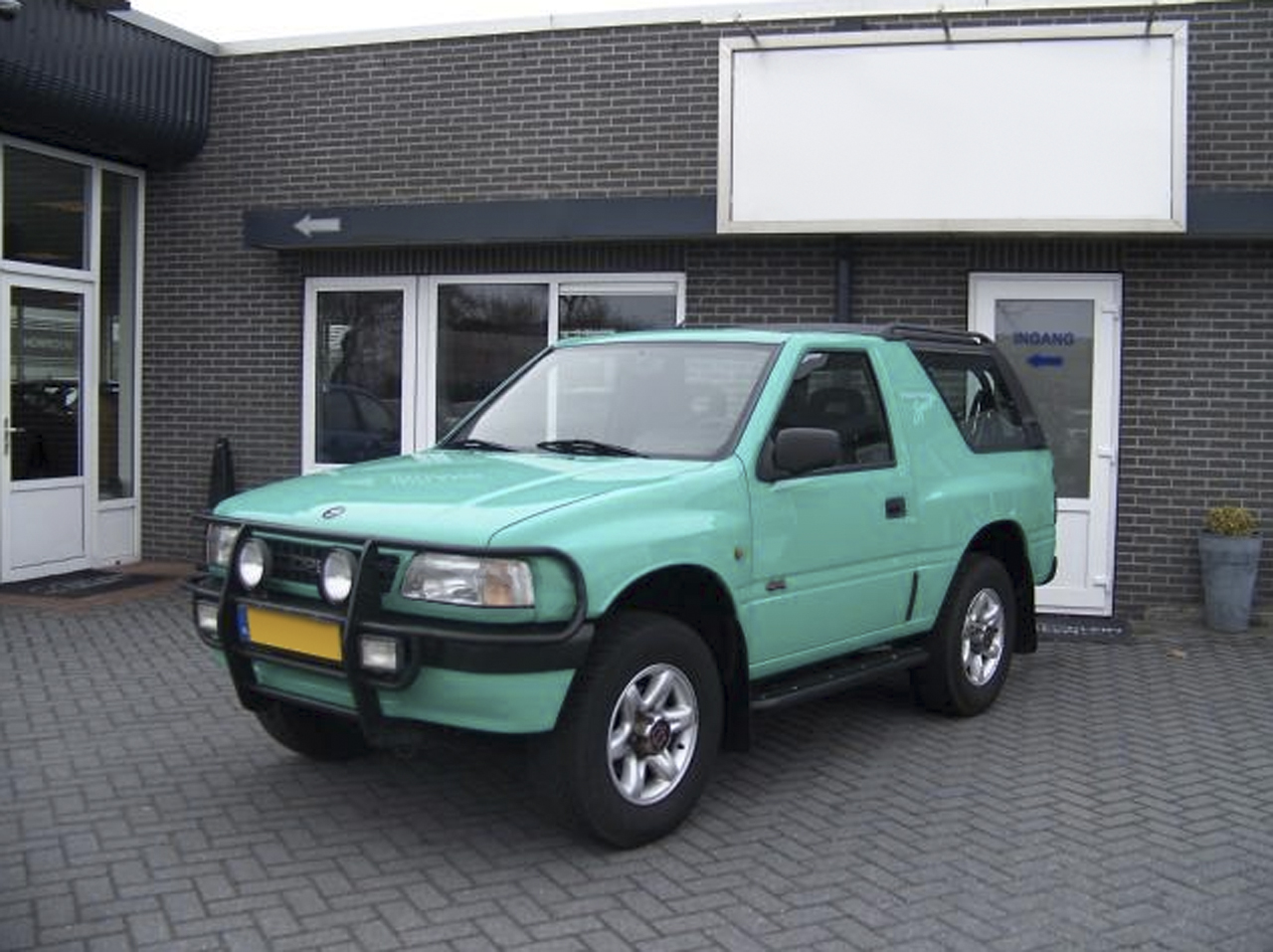 Short Body 3 door